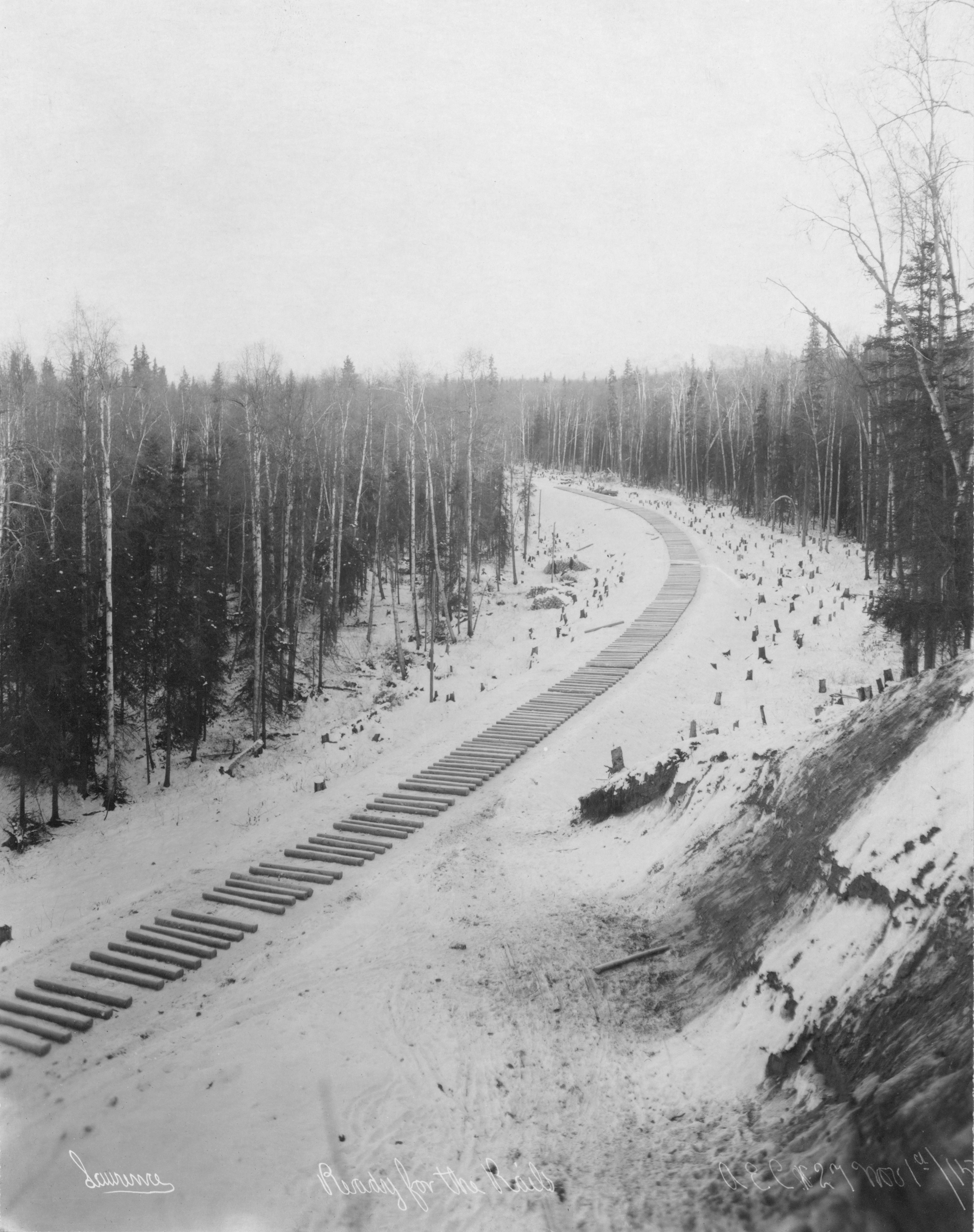 A railroad under construction in Alaska, 1915. The ties have been laid, and are awaiting the rails.